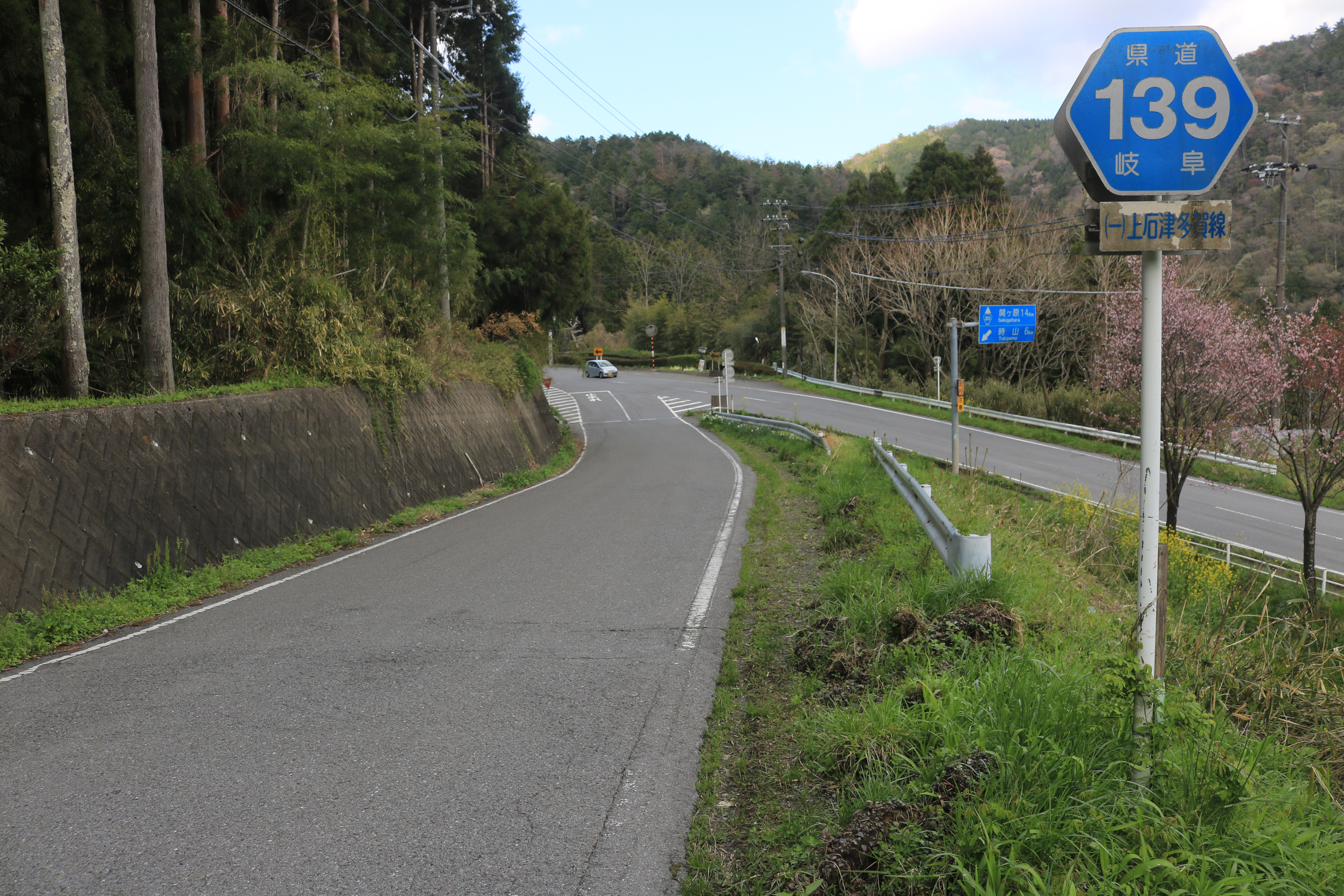 Gifu Prefectural Road Route 139 in Shimoyama, Kamiishizu-cho, Ogaki, Gifu prefecture, Japan.